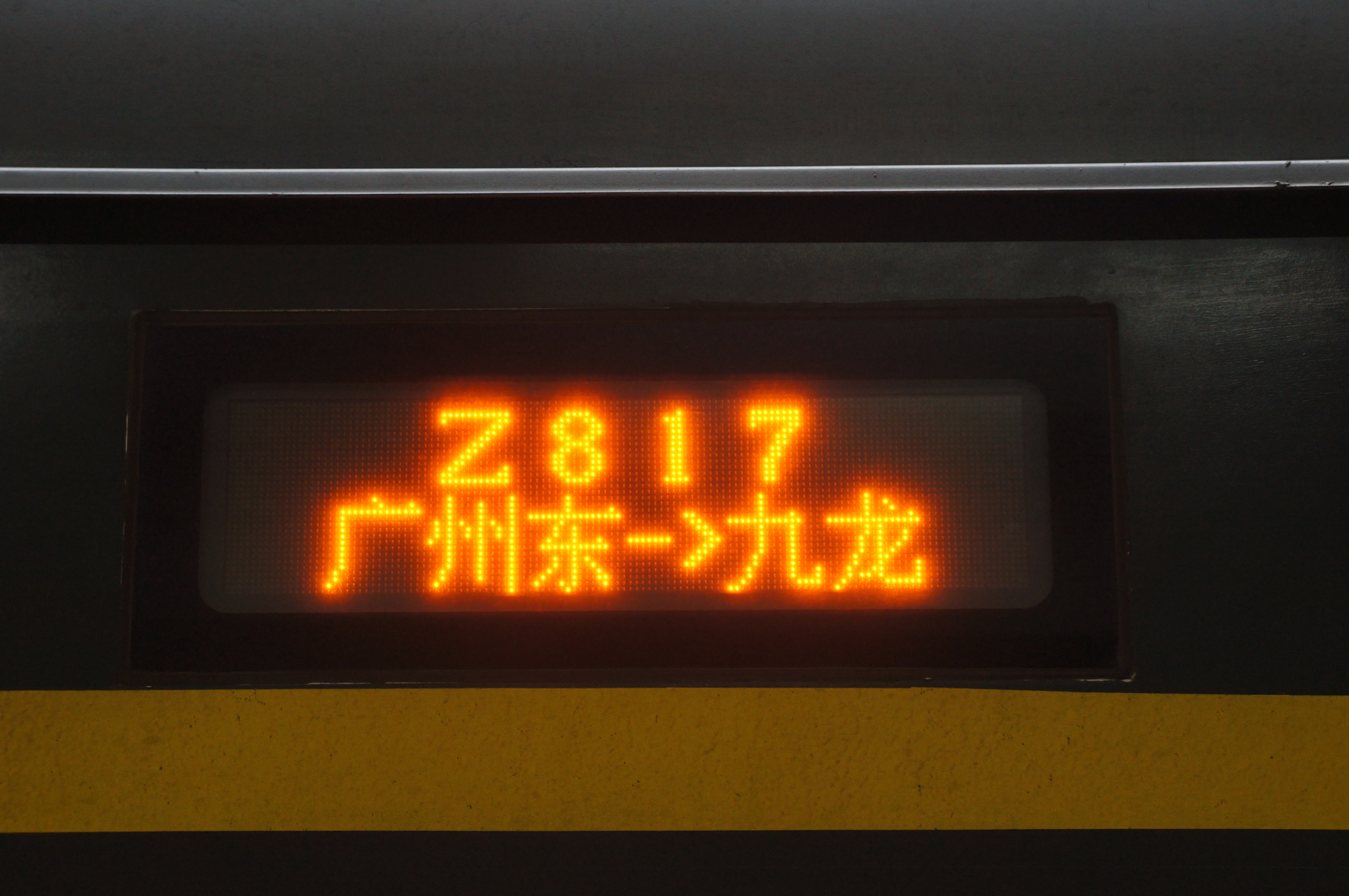 Z817 information board on specially made 25T coaches 201609